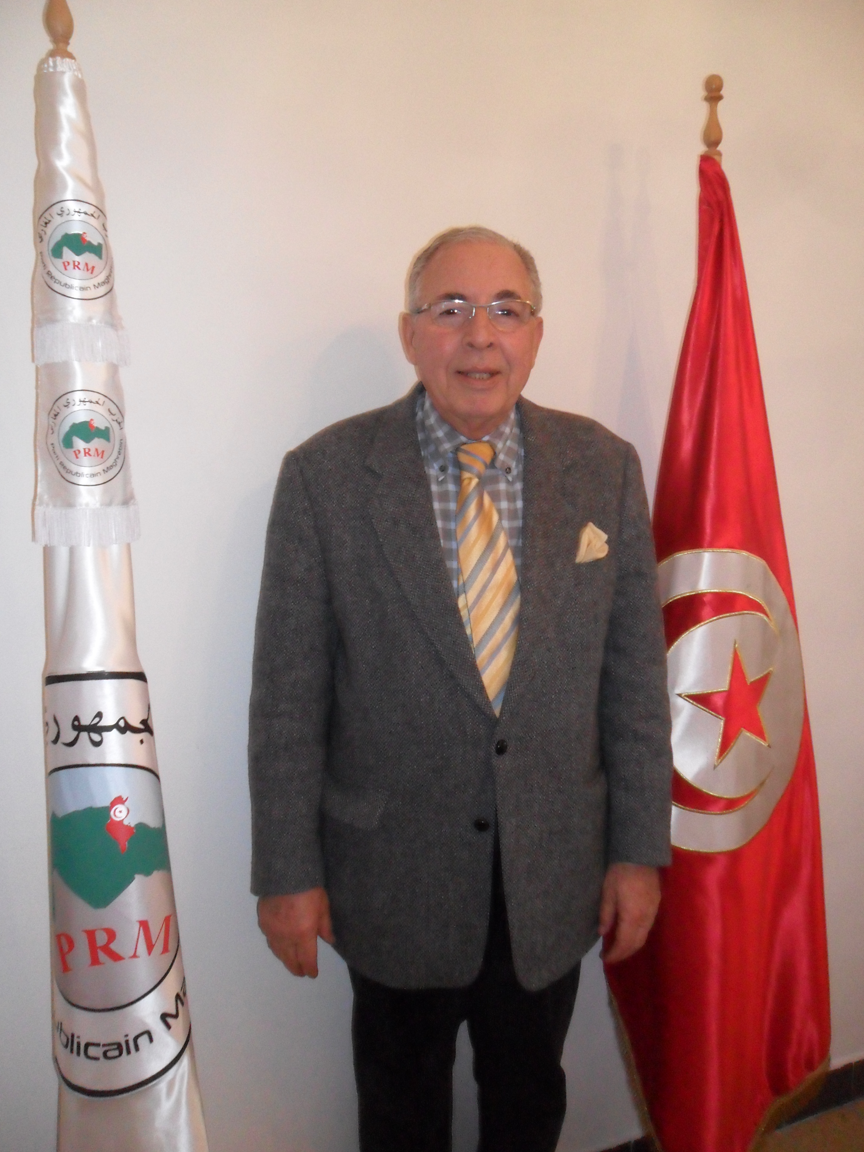 Bousairi Bouebdelli (1940- ), Tunisian politician and University president